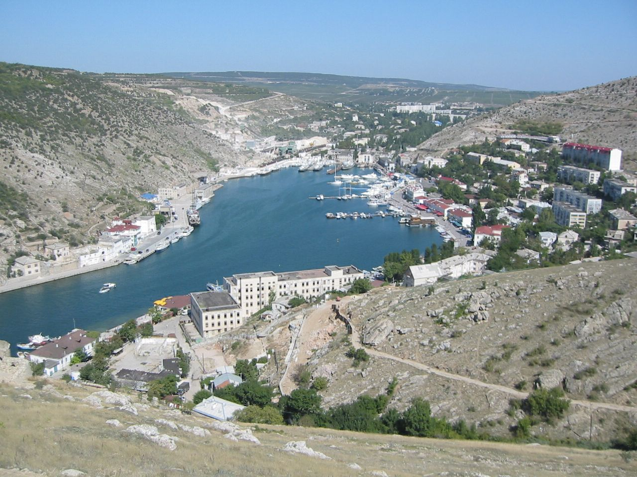 Balaklava, section of the city of Sevastopol, on the Crimean peninsula. Fishing and limestone quarrying are carried on. In ancient times it was an important Greek commercial city. In the Middle Ages it belonged to the Genoese until it was taken (1475) by the Turks, who gave it its present name. Balaklava was the capital of the former Balaklava district in the Crimean region until 1957, when it was incorporated into Sevastopol. There are ruins of a Genoese fortress (14th-15th cent.) in Balaklava.